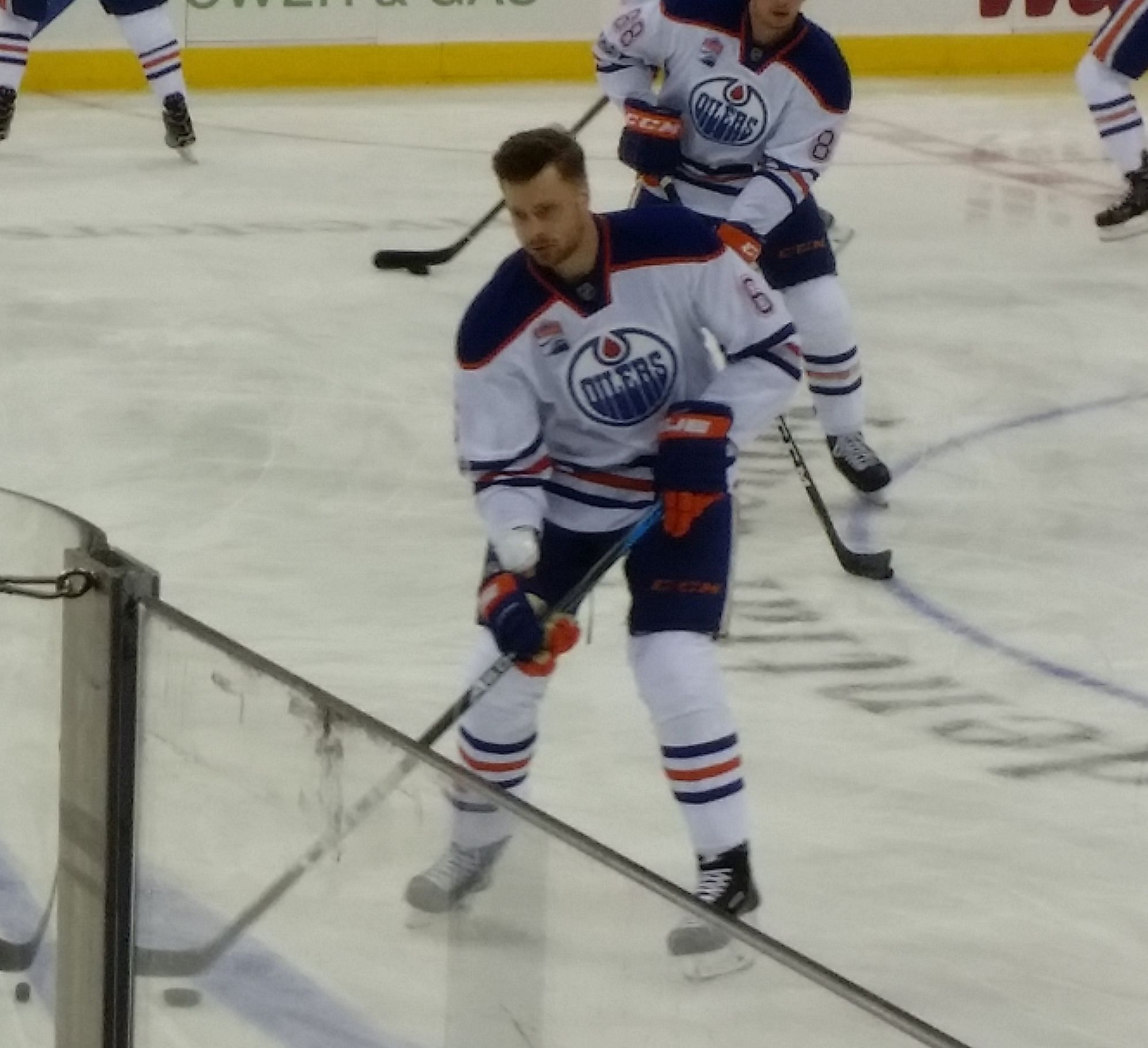 Adam Larsson returns to NJ to face his former team.